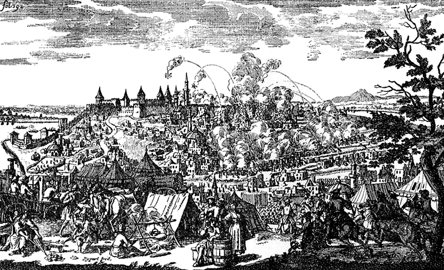 Siege of Belgrade in 1688 by Nypoort.